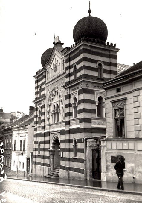 Jewish synagogue in the Tsar Uros Street, Belgrade, 1908.Catalog number: Zf, A-II-85